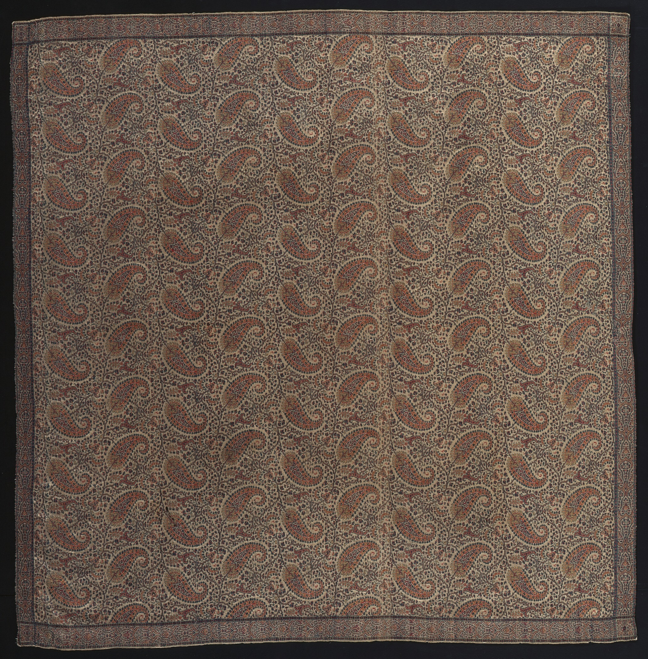 Scotland, Paisley, circa 1830 Costumes; outerwear Wool, silk, supplementary weft on plain-weave ground 52 1/2 in. square with fringe (133.3 cm) Gift of Anne Louise Flint (M.84.244.1) Costume and Textiles